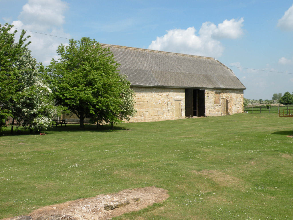 Barn north of Denny Abbey, Waterbeach, Cambridgeshire